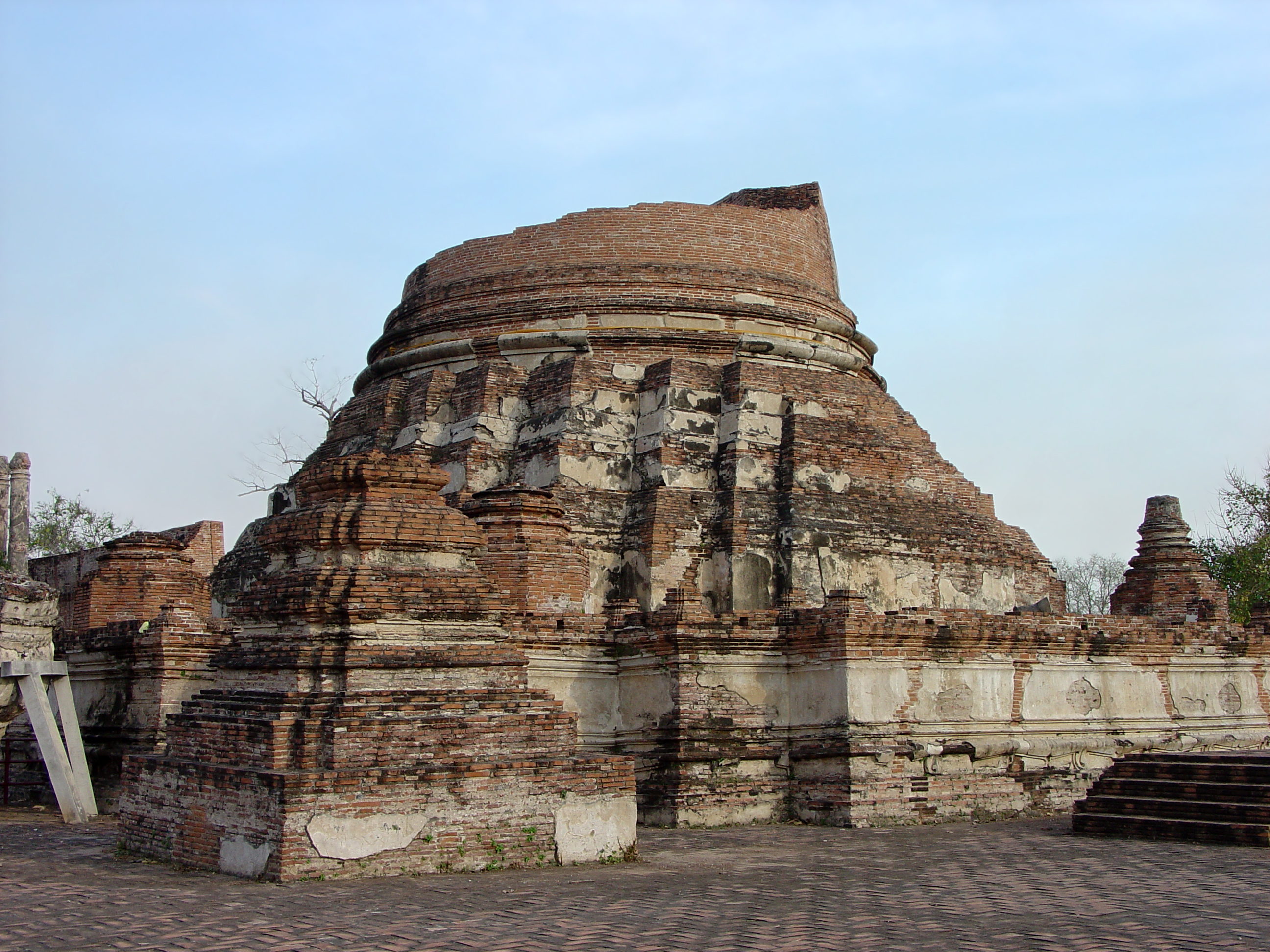 The temple's principal chedi is located between the ubosot (ordination hall) and the viharn (image hall). The chedi is a partial ruin; its upper two thirds are missing.